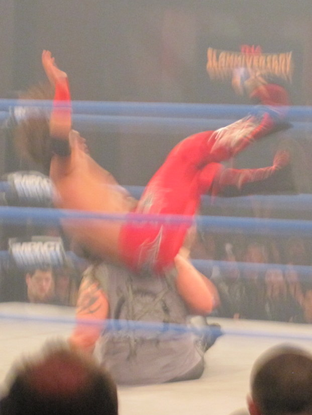 Sunday, June 12, 2011. Universal Orlando